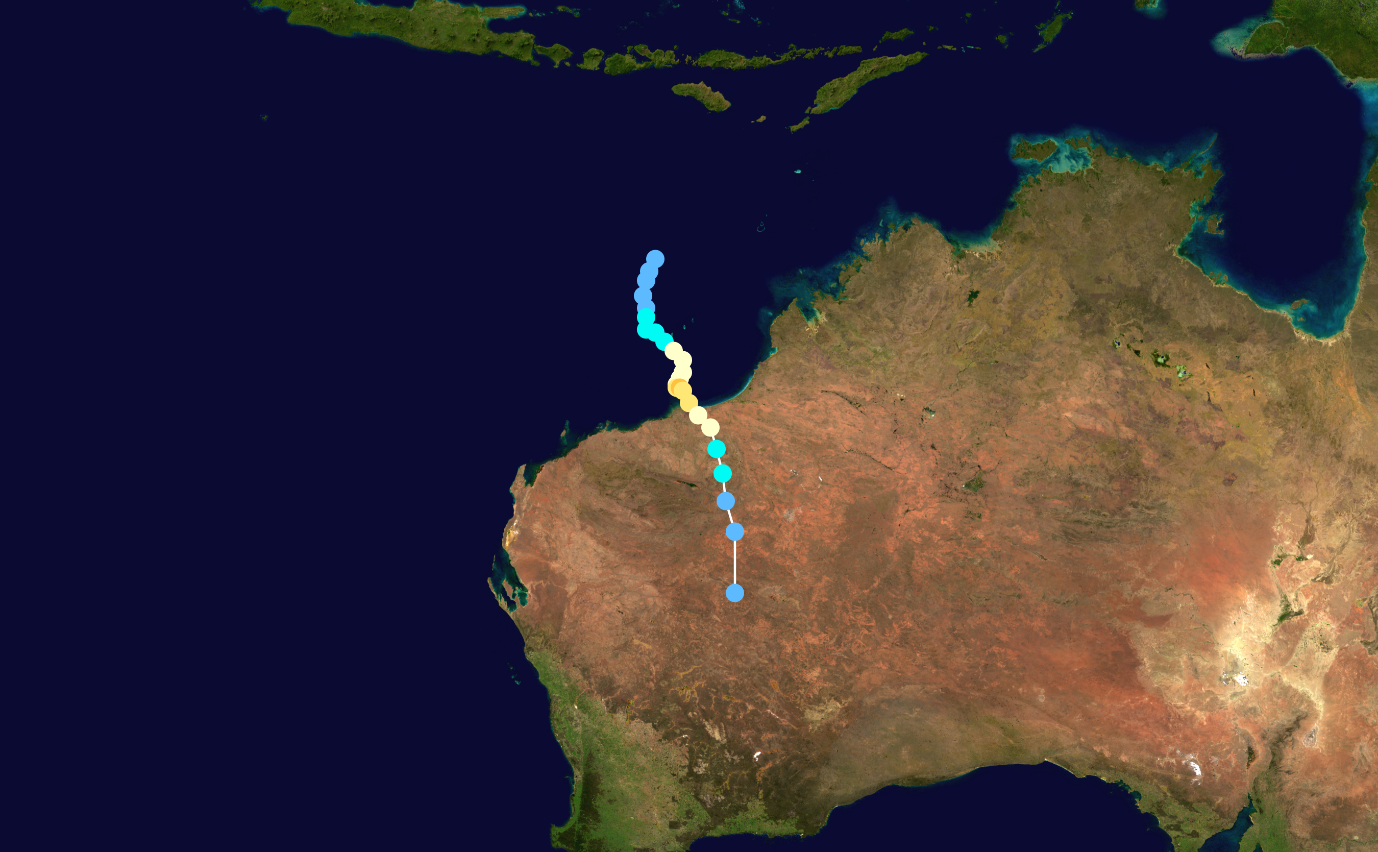 Track map of Severe Tropical Cyclone Rusty of the 2012-13 Australian region cyclone season. The points show the location of the storm at 6-hour intervals. The colour represents the storm's maximum sustained wind speeds as classified in the Saffir–Simpson scale (see below), and the shape of the data points represent the nature of the storm, according to the legend below. Saffir–Simpson scale Tropical depression≤38 mph≤62 km/h Category 3111–129 mph178–208 km/h Tropical storm39–73 mph63–118 km/h Category 4130–156 mph209–251 km/h Category 174–95 mph119–153 km/h Category 5≥157 mph≥252 km/h Category 296–110 mph154–177 km/h Unknown Storm type Tropical cyclone Subtropical cyclone Extratropical cyclone / Remnant low / Tropical disturbance / Monsoon depression